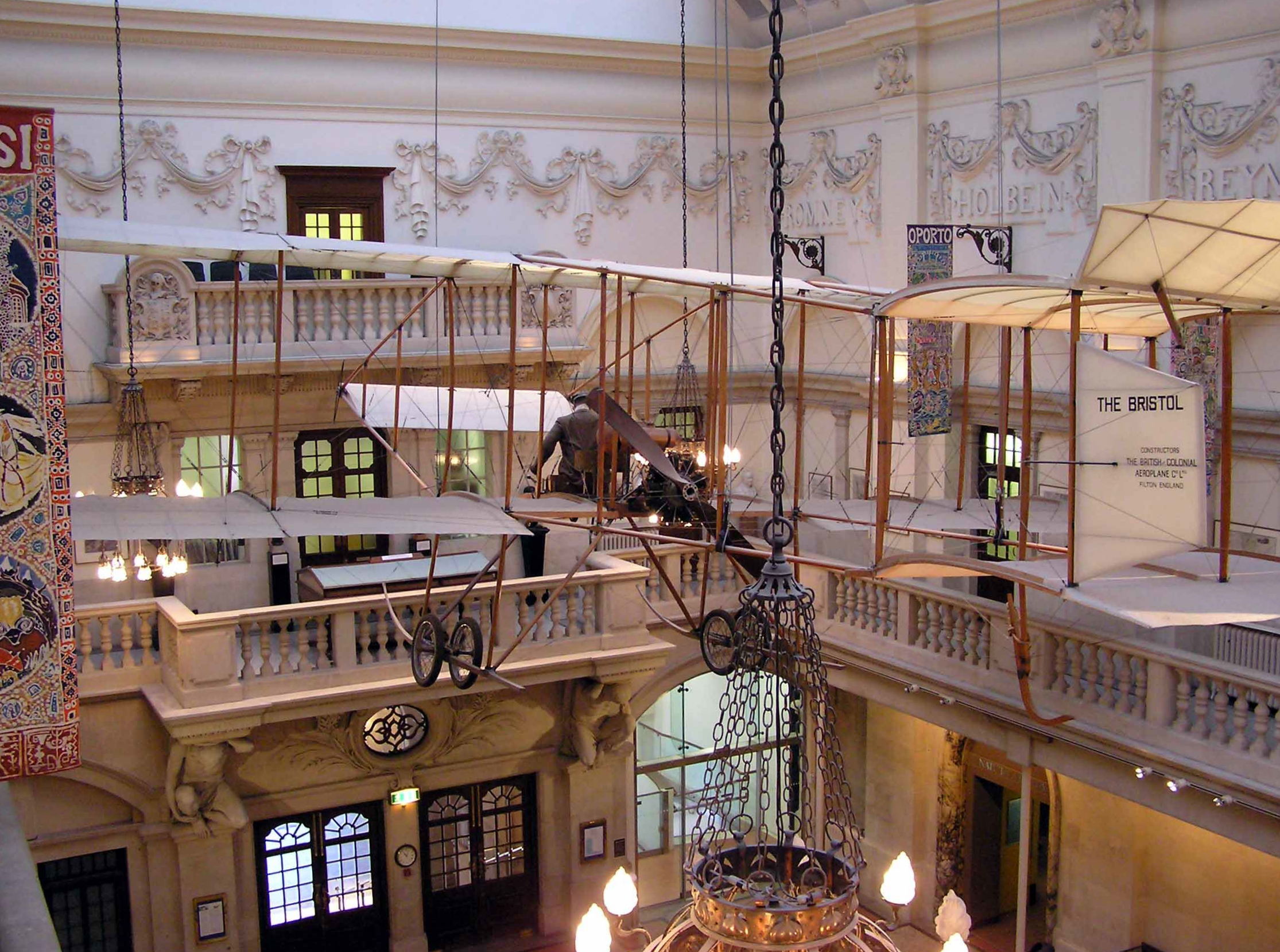 A Bristol Biplane replica (also called the Boxkite) hangs from the ceiling of the main hall of Bristol City Museum, Bristol, England. This aircraft was made in 1963 for the film “Those Magnificent Men in their Flying Machines“. The Bristol connection is that all 76 Boxkites were manufactured at Filton, on the outskirts of Bristol.